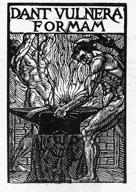 Illustration by Adolfo de Carolis for D'Annunzio's motto "Dant vulnera formam"